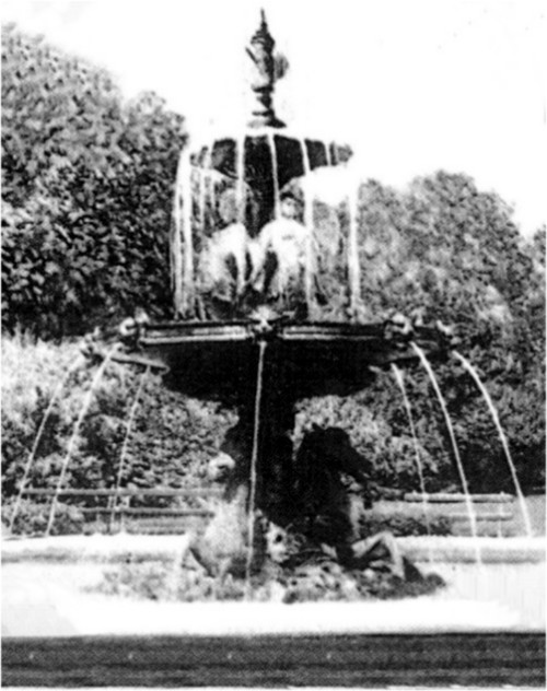 «Rudolf» fountain in Braşov. Built in 1897, it has been placed in the park bearing the same name. At the base there are three horses and upon them three nymphs. The fountain degraded slowly, and since 2007 there is nothing left of it.